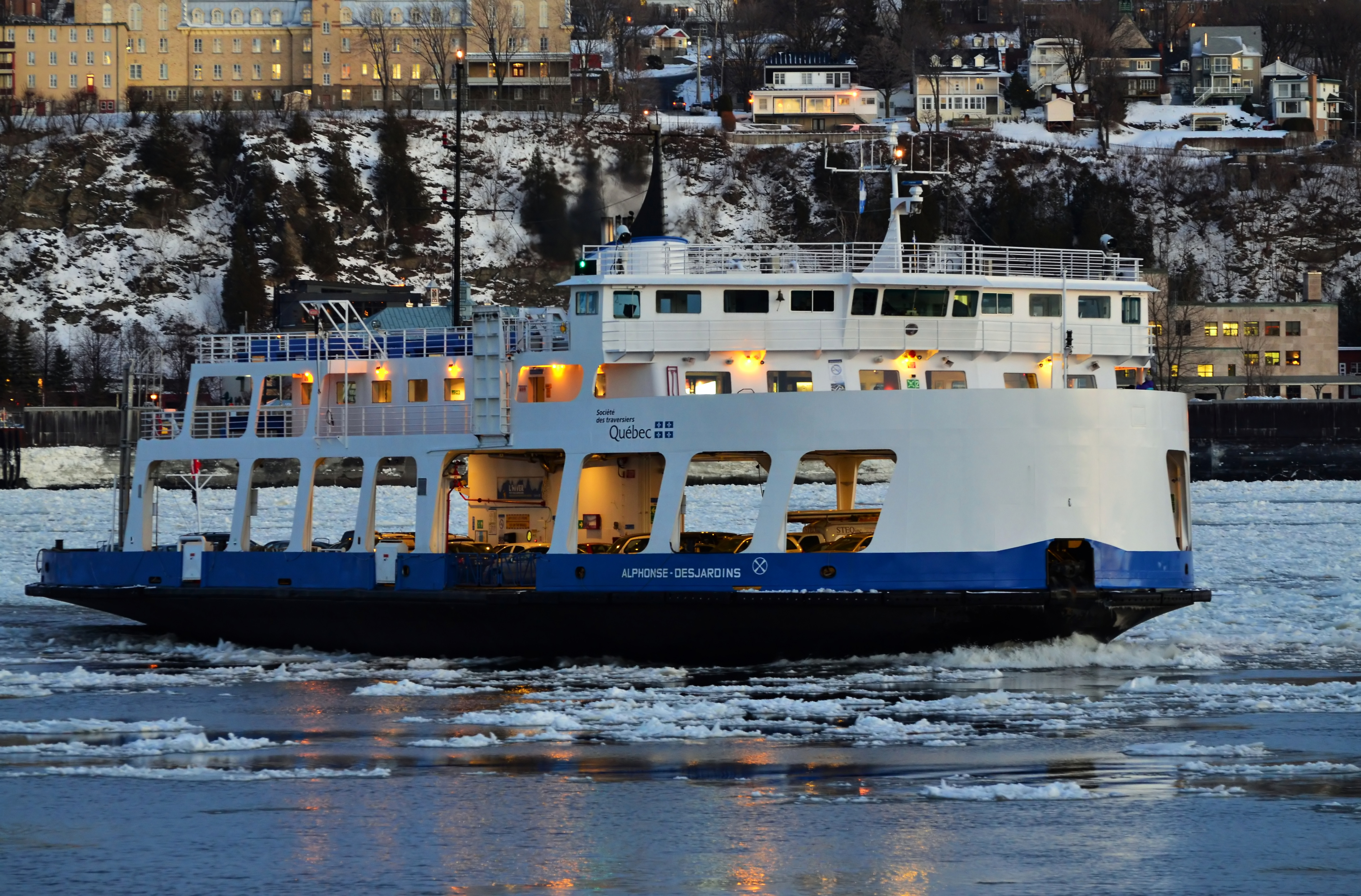 The Alphonse-Desjardins ferry over the St-Lawrence River in the province of Quebec (Canada). It crosses between Québec and Lévis.